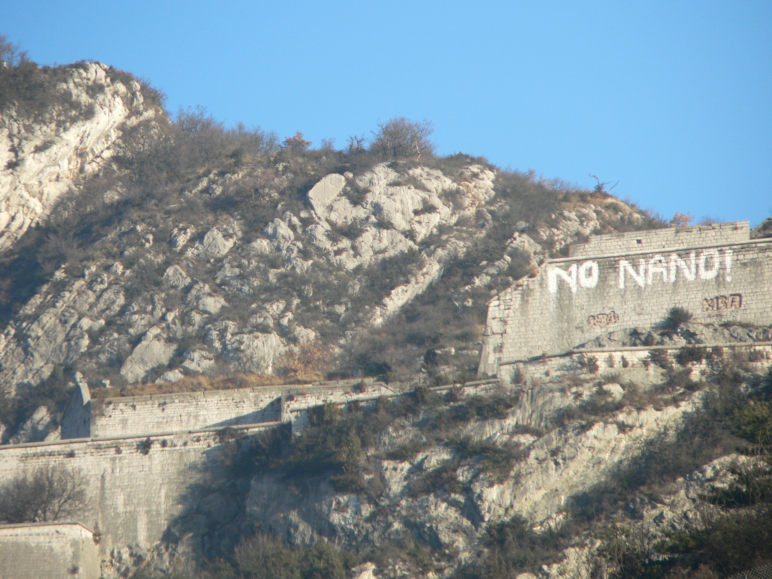 NO NANO grafitti (protesting the establishment of nanotechnology laboratories) on the Bastille fortress in Grenoble, France